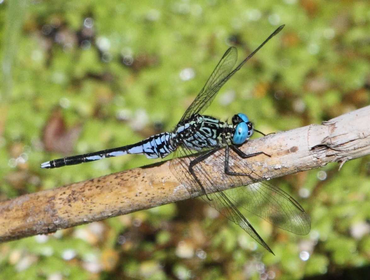 Male slender pintail Acisoma variegatum, Umsundusi river near Umfolosi Village, KwaZulu-Natal, South Africa. OdonataMAP record no. 13255